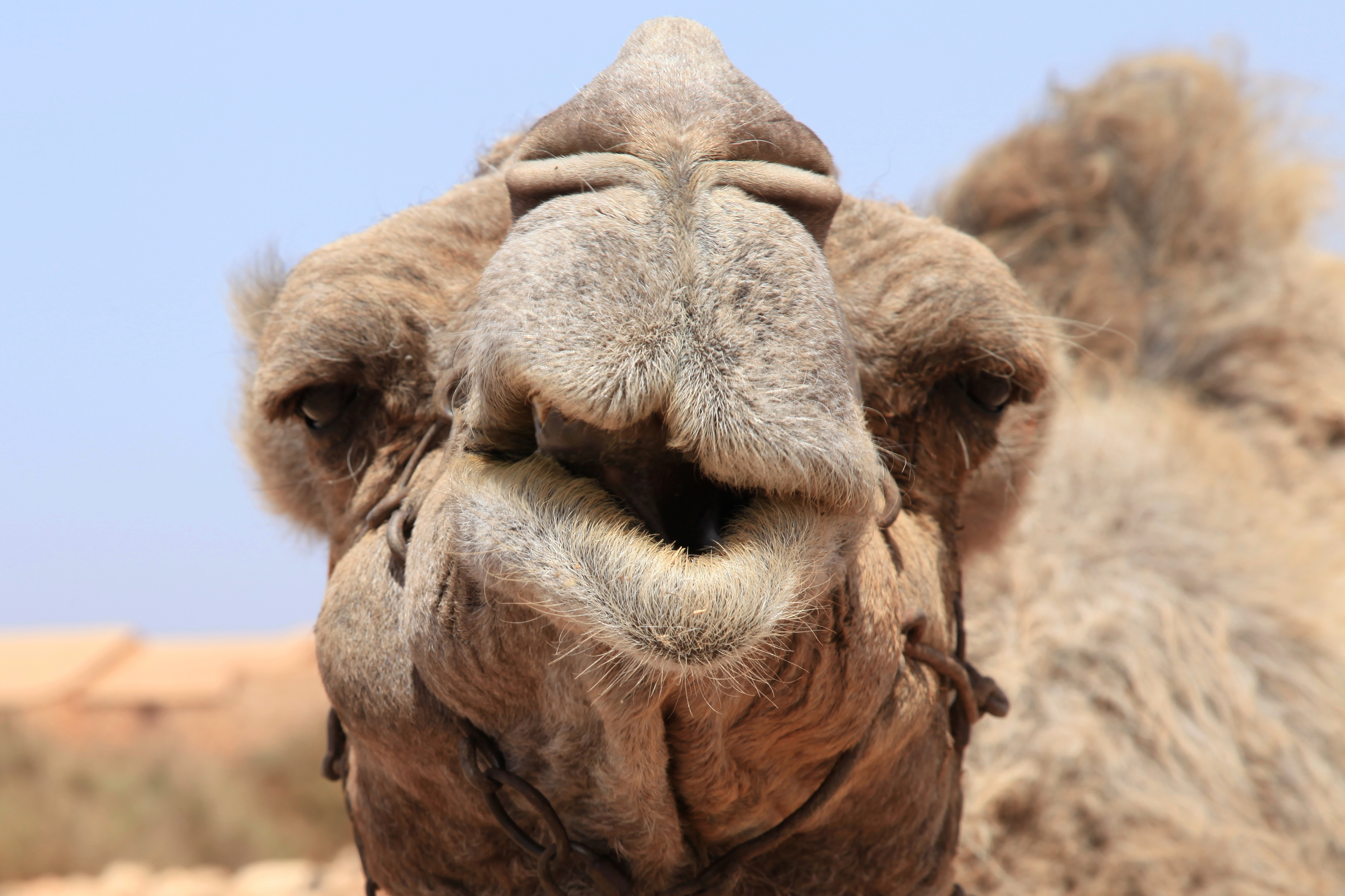 Dromedary in Ecomuseo La Alcogida at Aldea Tefia, FV-207 in Tefia, Puerto del Rosario, Fuerteventura, Canary Islands